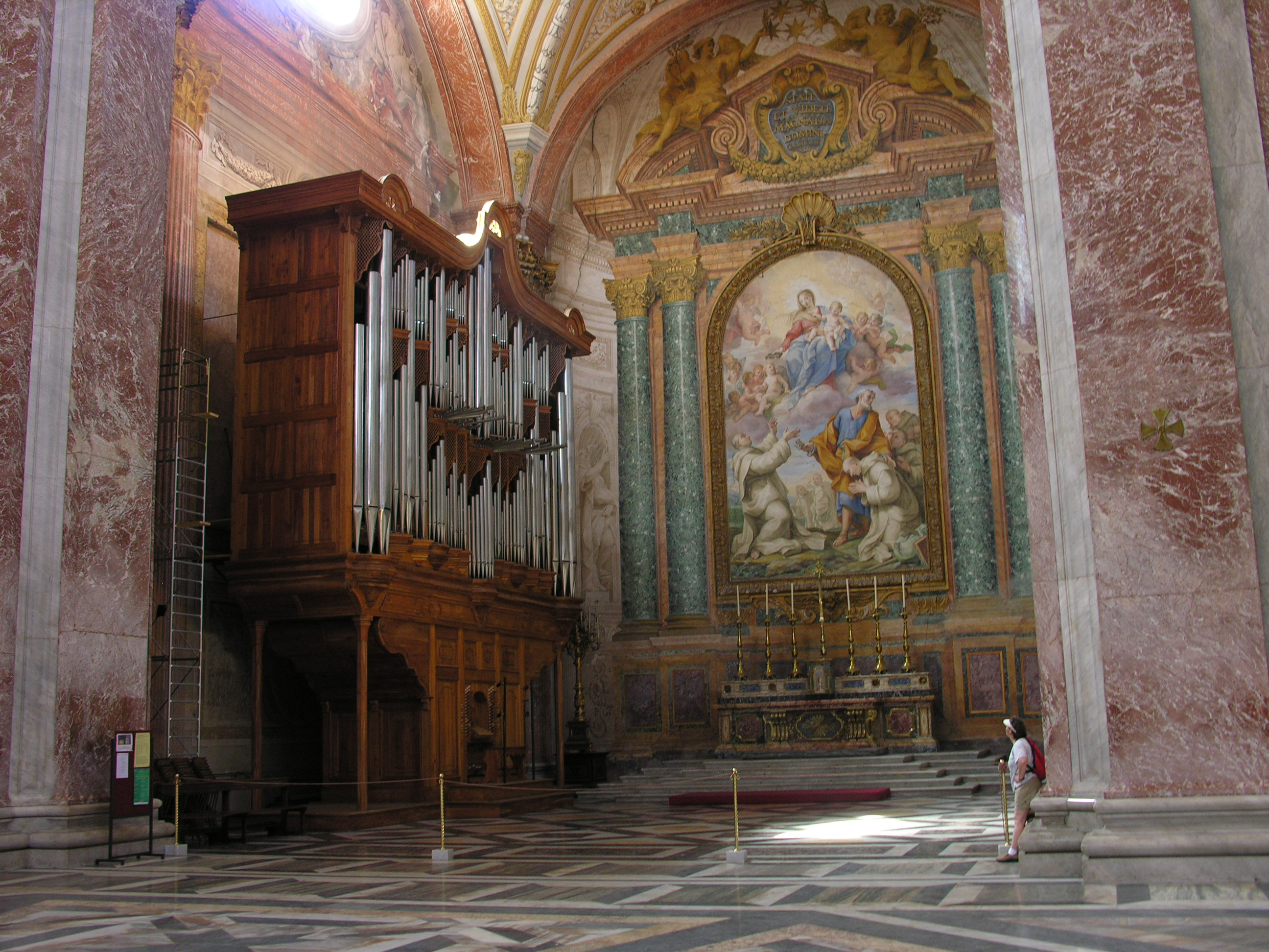 Organ at Santa Maria degli Angeli (Rome)